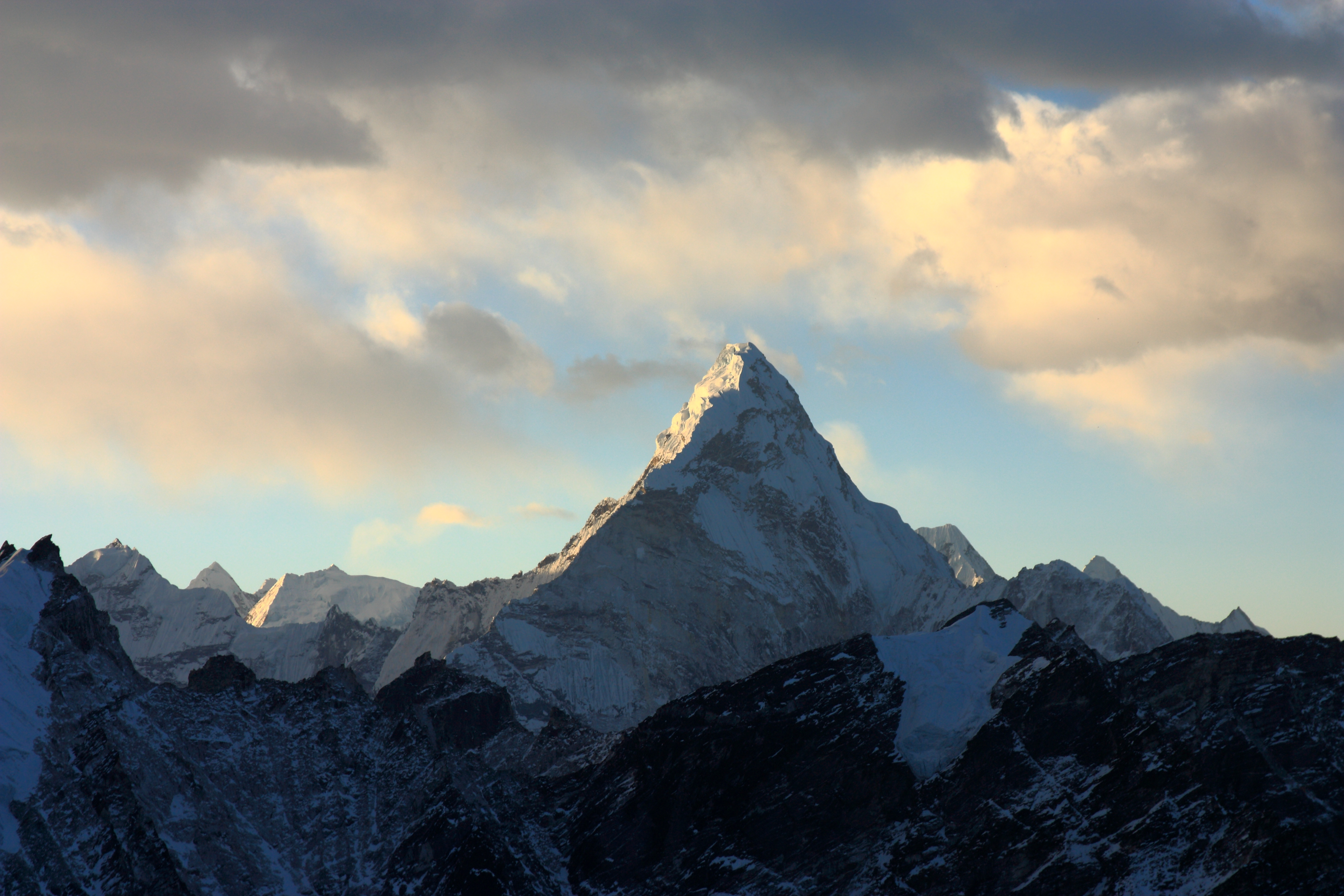 Ama Dablam from Kala Patthar.